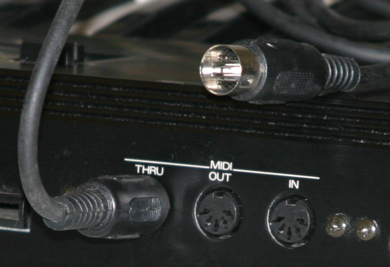 5 pins DIN connector MIDI ports and cable.